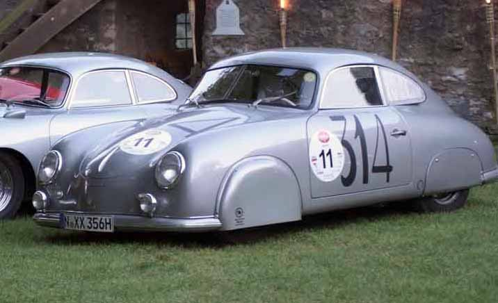 A circa 1952 Porsche 356 coupé SL (aluminium-bodied), with fairings over the wheels.